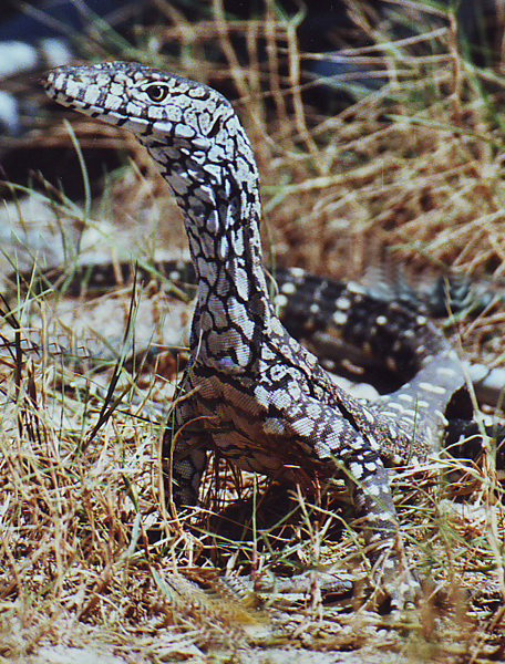 In typical tripodding pose, this large perentie (varanus giganteus) was photographed by User:Richahel in the wild near 17-Mile Quobba Station, on the coast about 100m from Canarvon, West Australia. Camera used was a Pentax KM with 70-210 Pentax lens and 400 ASA film. This is a scan from a 6x4 colour print. It is released into the public domain by the author, User:Richahel